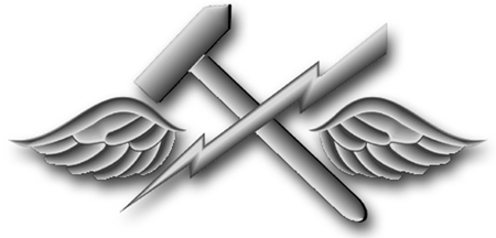 US Navy Aviation Support Equipment Technician (AS). A winged maul and spark, head of maul up; spark points down and to the front.